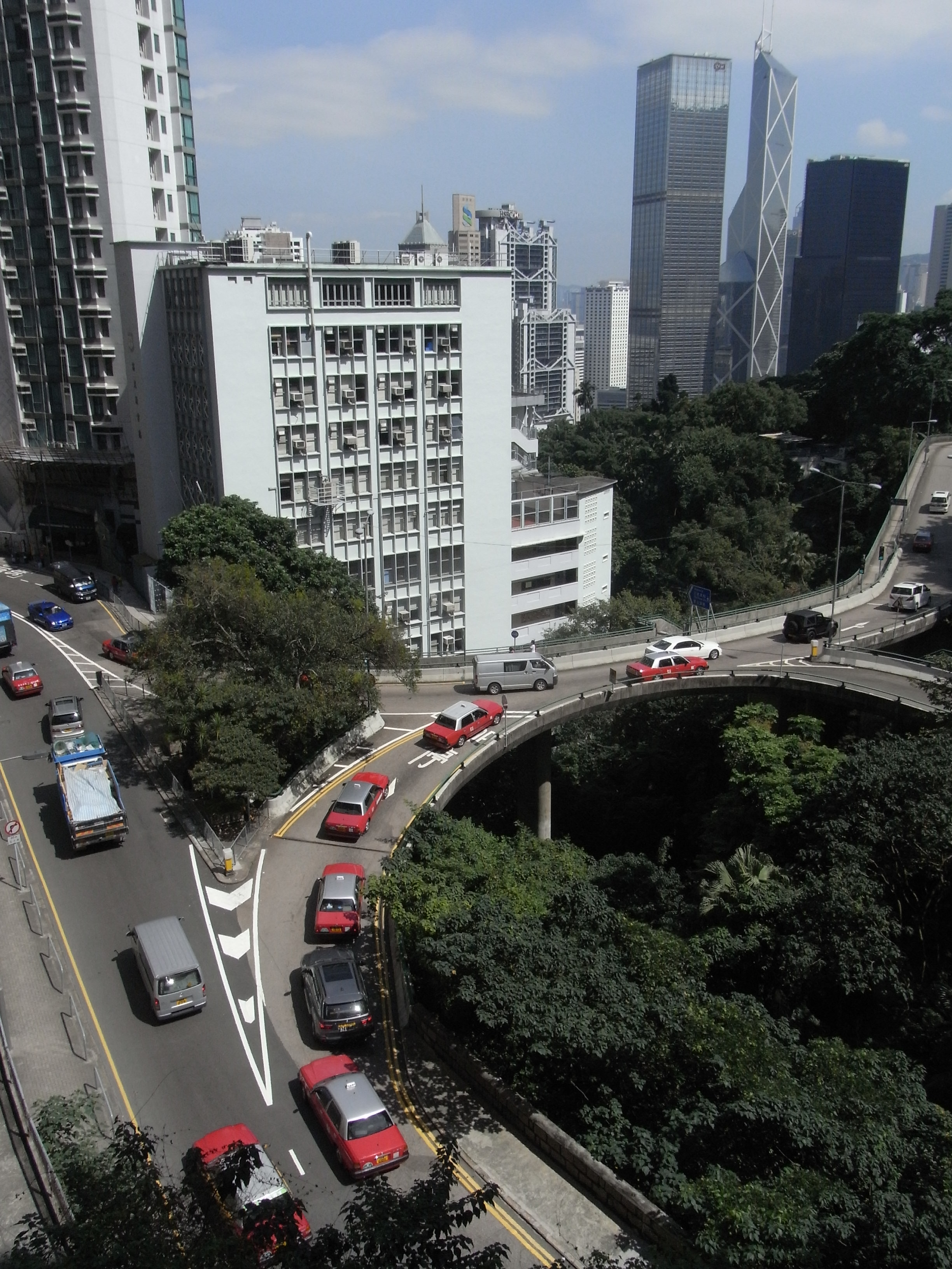 香港島zh:半山區